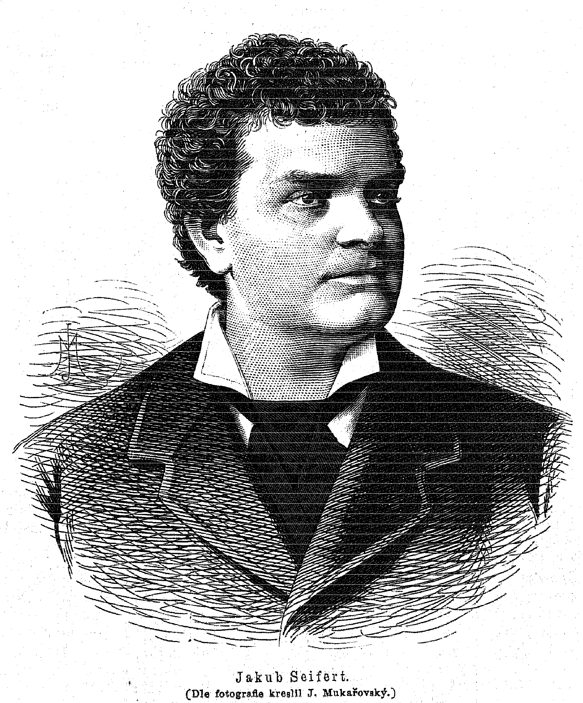 Portrait of Jakub Seifert (1846–1919), Czech actor.